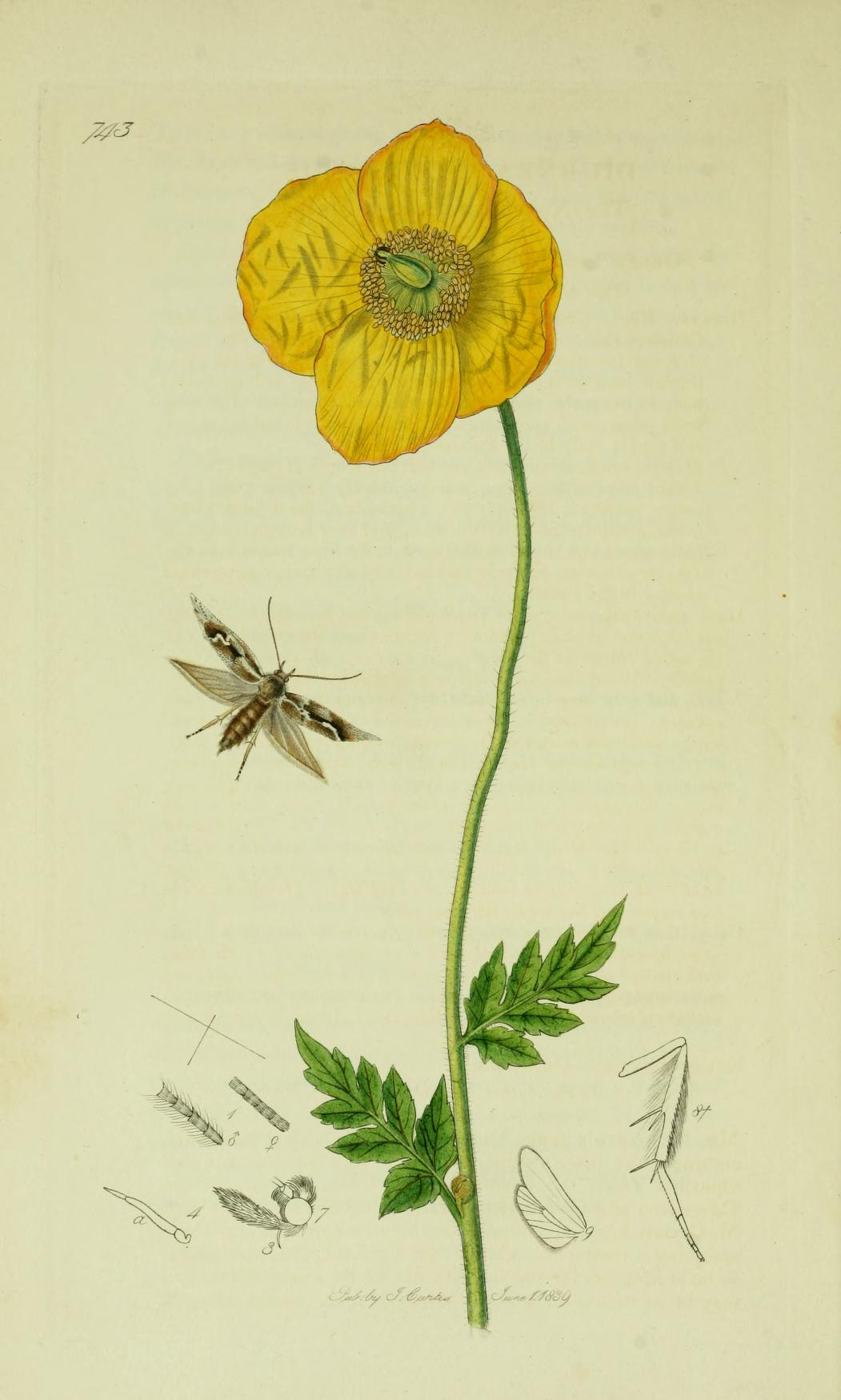 An illustration from British Entomology by John Curtis. Lepidoptera: Diurnea novembris or Diurnea lipsiella (phryganella) (November Dagger).